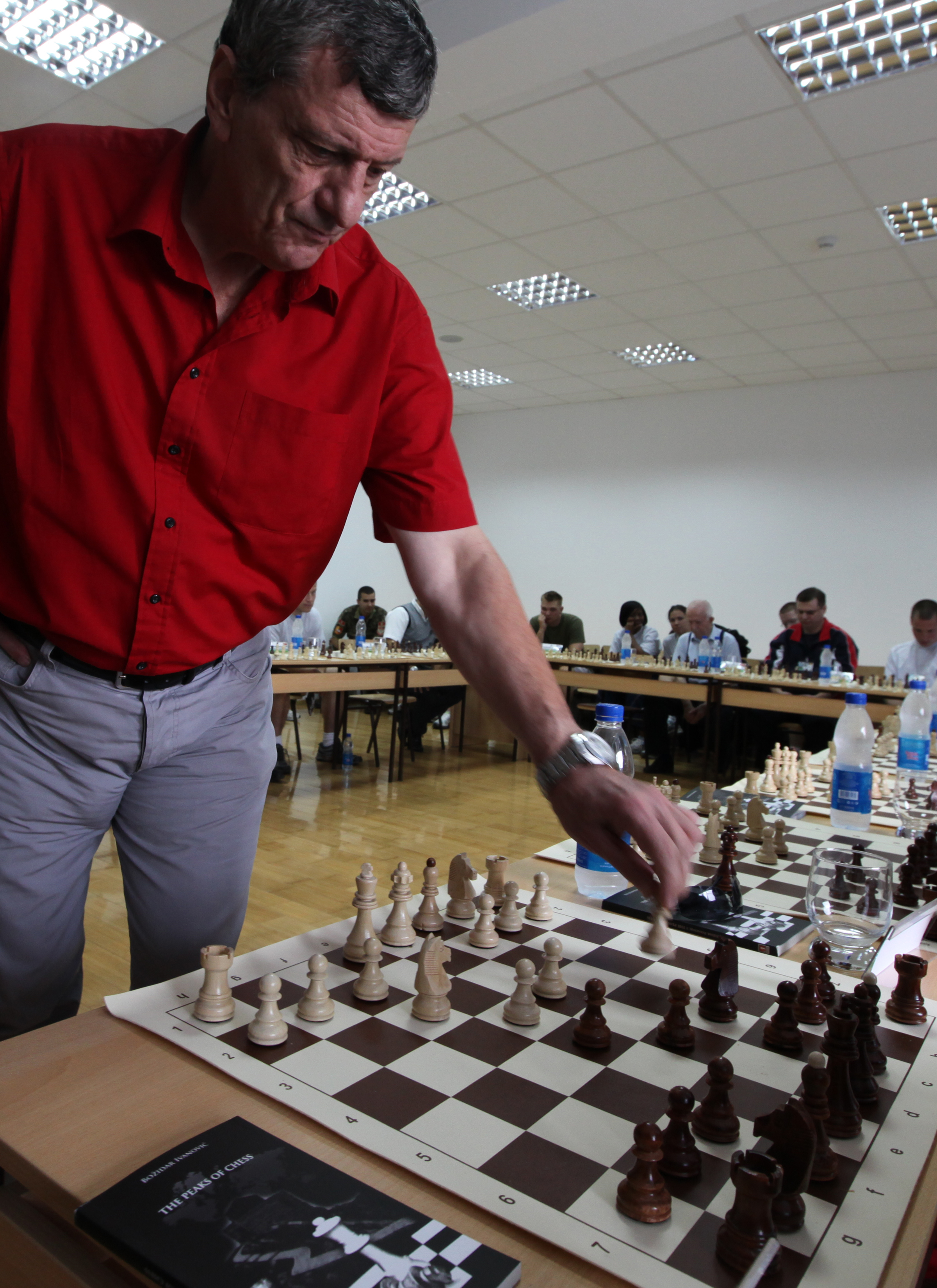 Montenegrin chess great, Bozidar Ivanovic makes his move against Staff Sgt. Chris Stevens, a personnel retrieval and processing specialist with Detachment PRP Smyrna, Ga., aboard the Danilovgrad Training Base in central Montenegro. The men played their game during the sports day of Medical Training Exercise in Central and Eastern Europe 2010. The exercise brings together nearly 300 service members from the armed forces of the U.S. and nine central and eastern European countries together for mass casualty scenario response training.